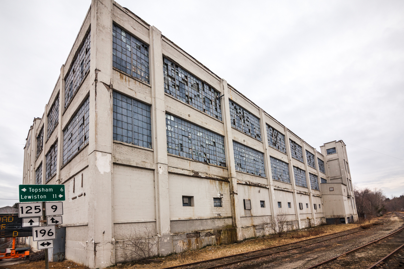 Another view.